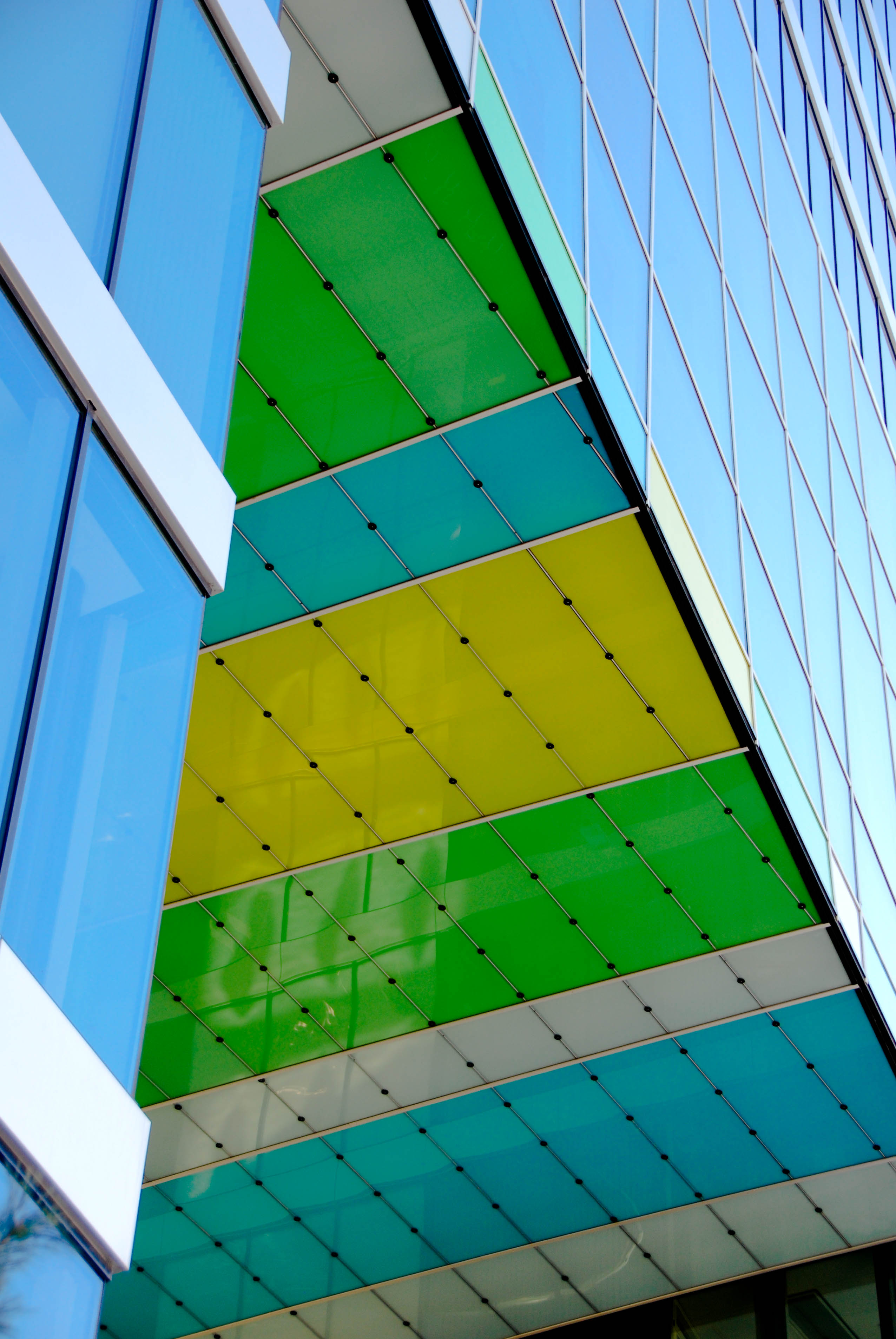 Closeup of PriceWaterHouseCoopers and Oslo S Utvikling (Oslo Central Station Development) office building. The building is the first building from the Oslo Opera side of the long row consisting of what is to be, 12 residential, commercial and office buildings.